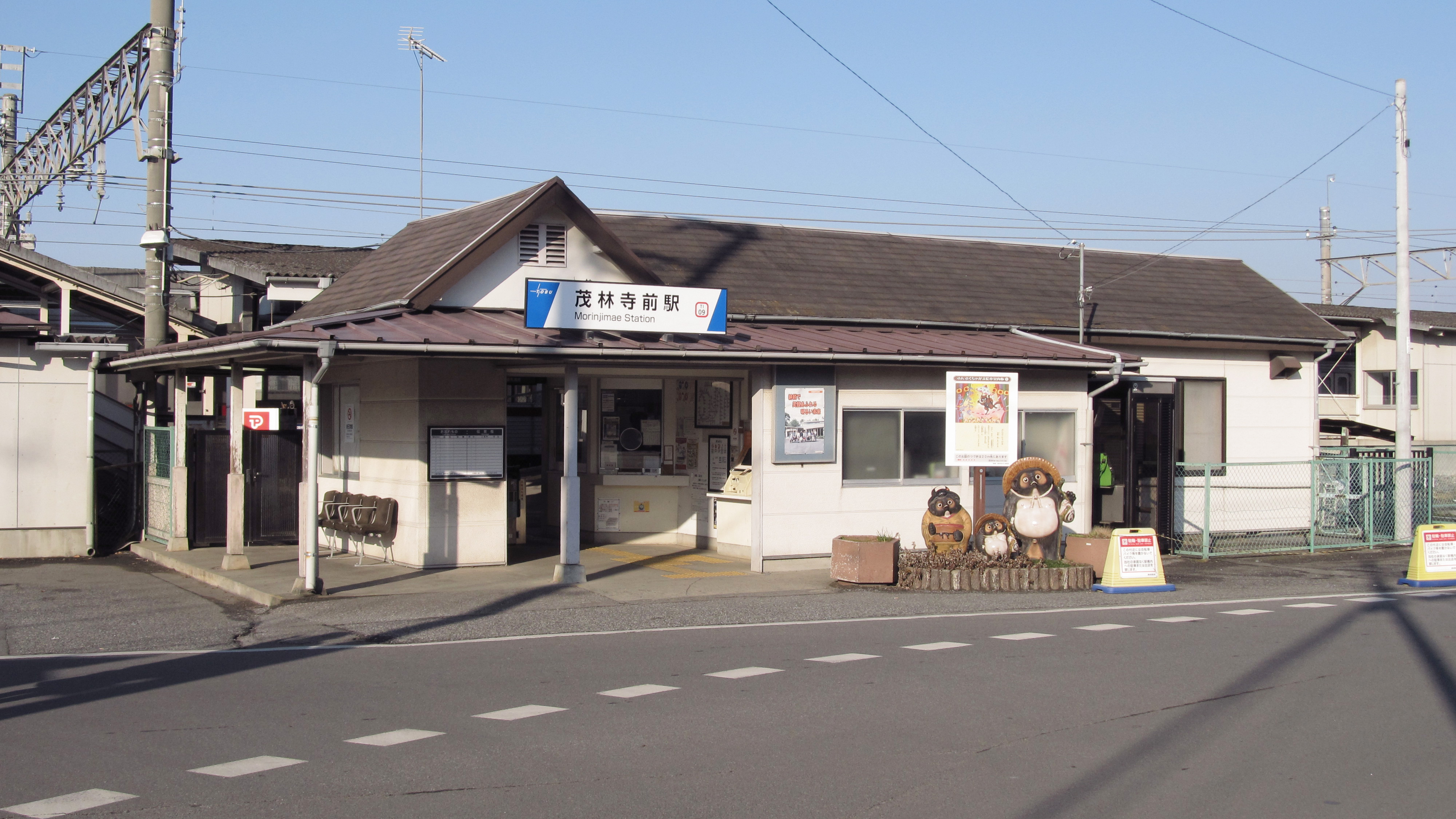 The building of Morinjimae Station on the Tobu Railway Isesaki Line in Tatebayashi city, Gumma prefecture, Japan